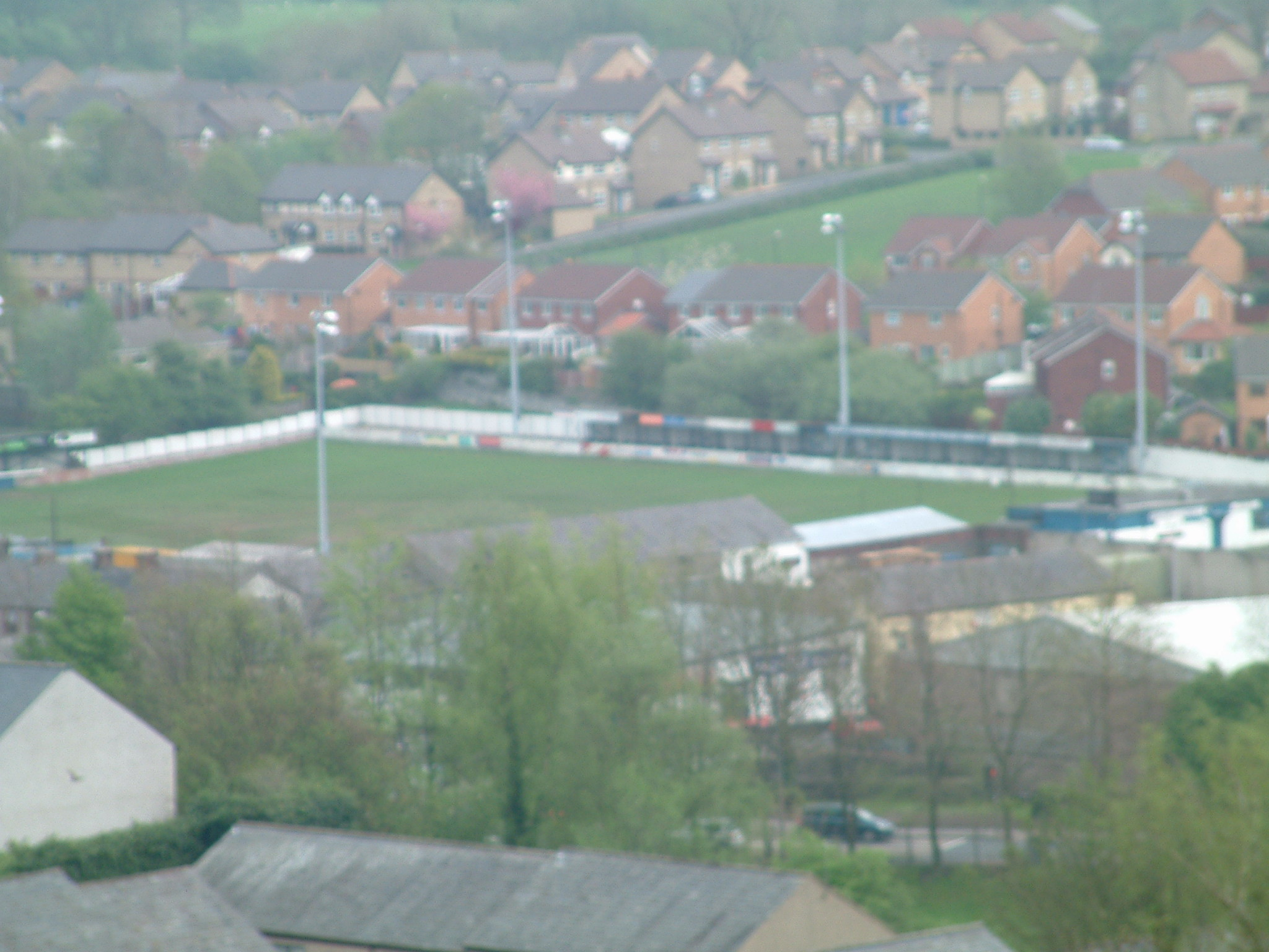 Clitheroe football club